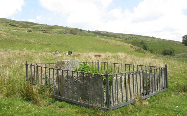 Hic jacet Porvs, Yma y gorwedd Porws. Here lies Porus This is the reputed grave of Porus an early British Christian. The actual tombstone damaged by bored squaddies is now in the National Welsh Museum and the stones seen here are replicas. The wording on the tomb reads Porius Hicintumuloiacit Homo Planusfuit - Porus lies buried beneath this mound He was a simple man.